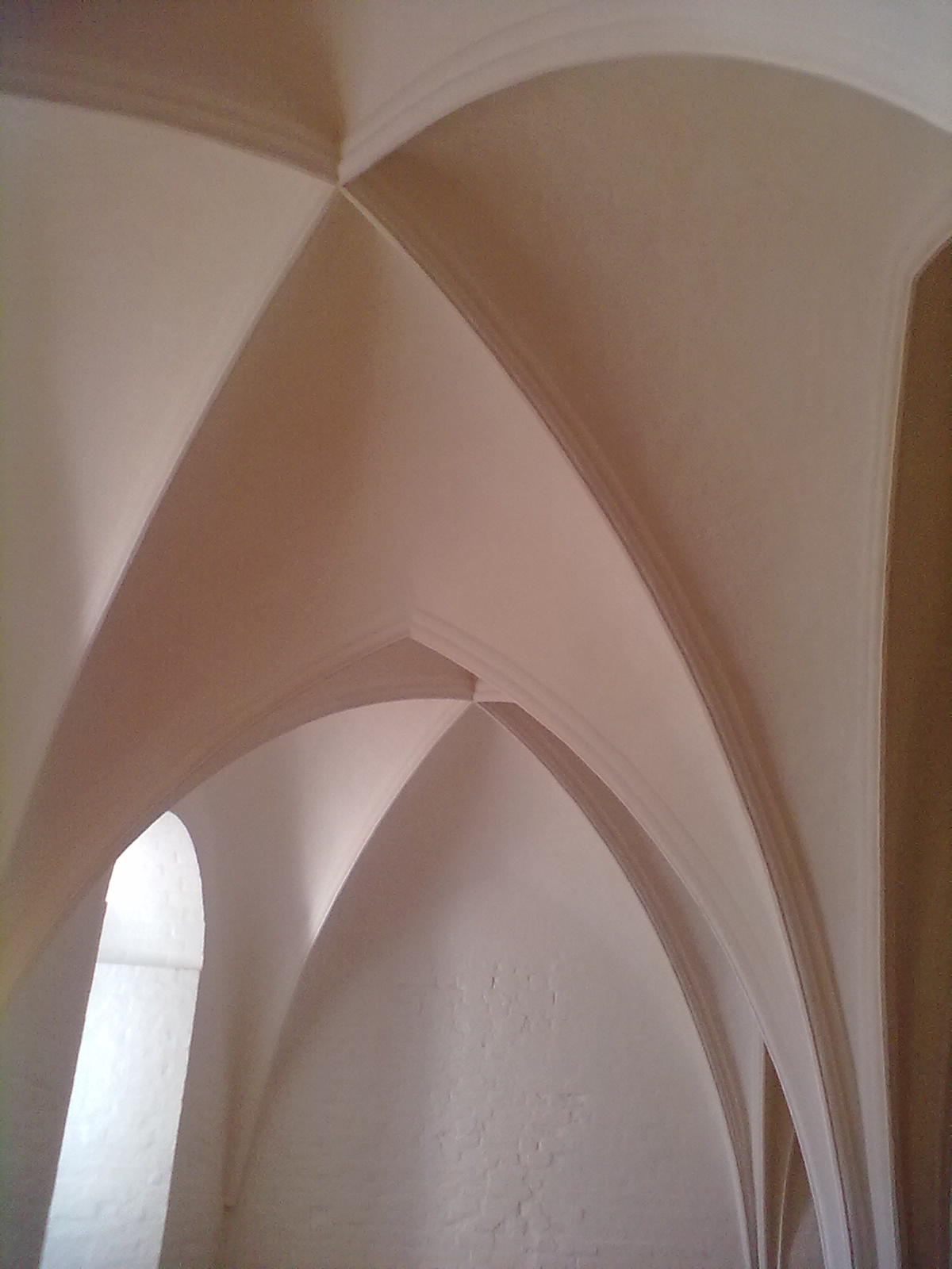 Restored roof of King's Hall in the Castle of Hame